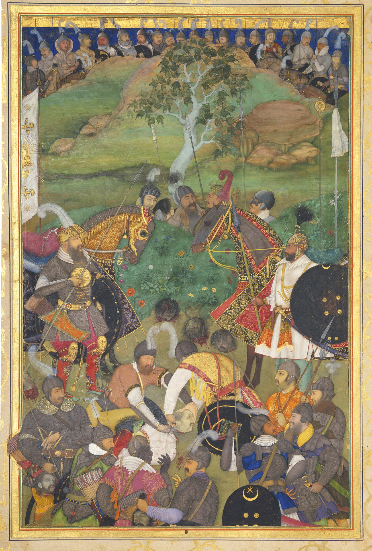 The execution of Khan Jahan Lodi and supporters (3 February 1631)